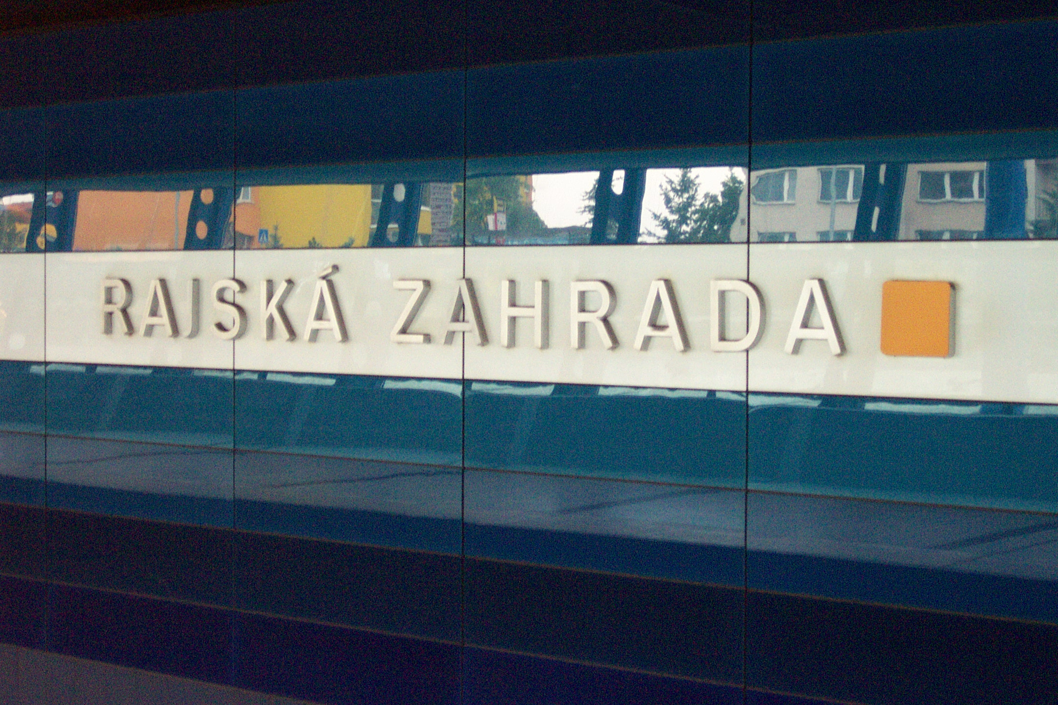 Metro station Rajská zahrada, Prague, CZ